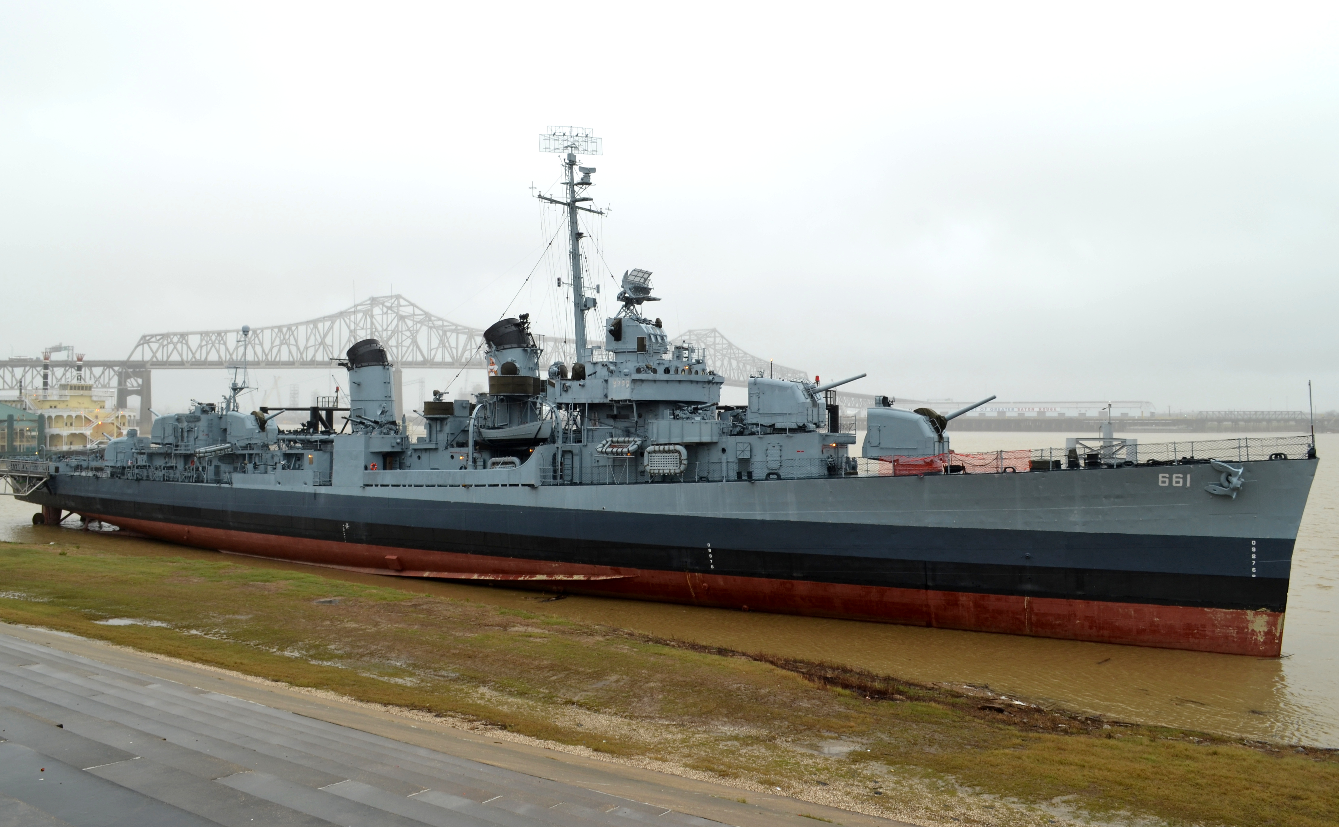 The Fletcher-class destroyer USS Kidd (DD-661) at the Louisiana Veterans Memorial in Baton Rouge, Louisiana.